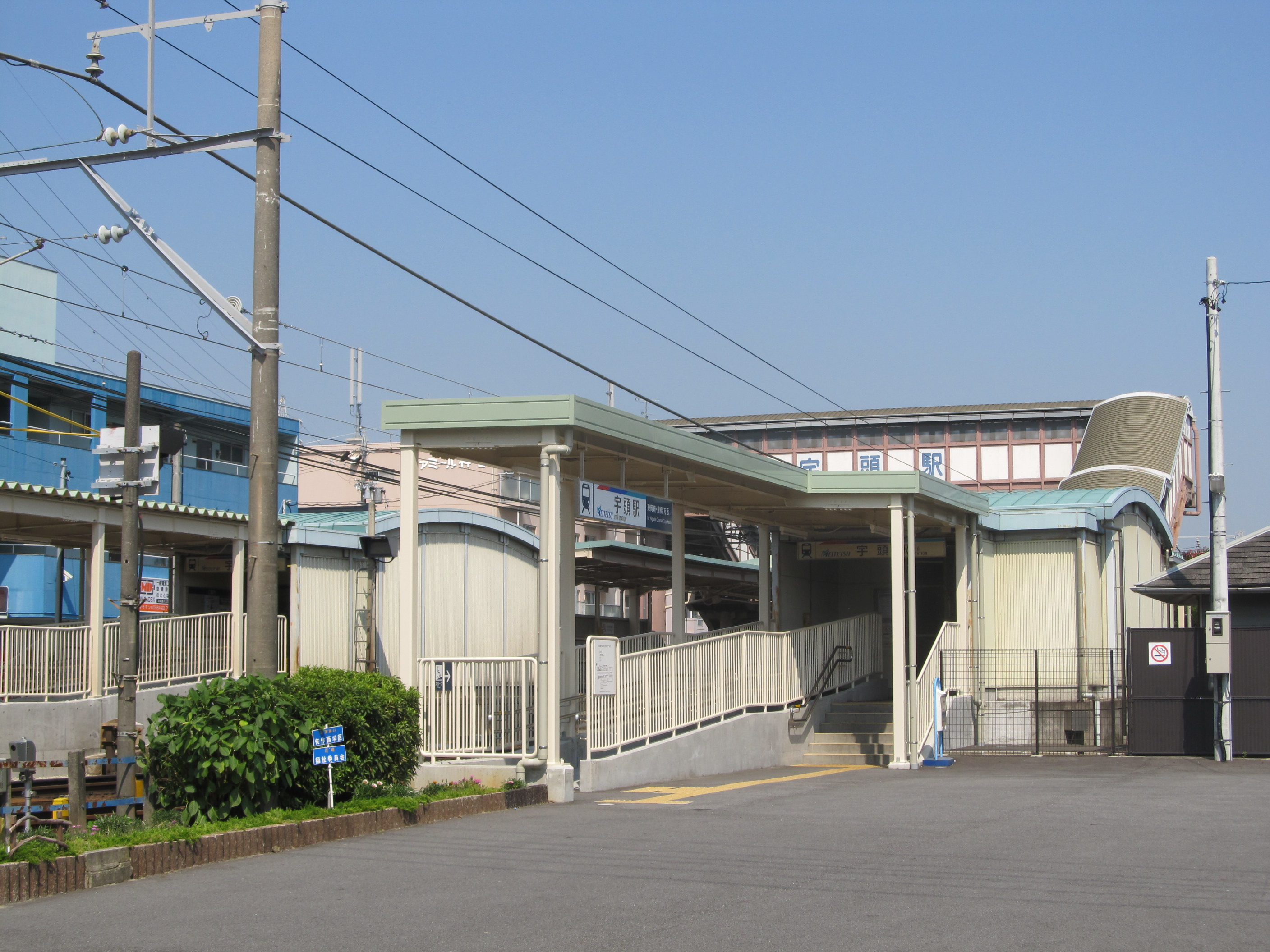 Nagoya Railroad Naoya Main Line Utō Station